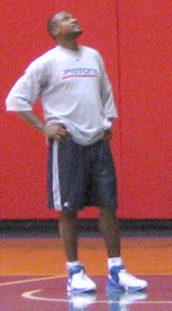 Lindsey Hunter during a 2007 practice session.